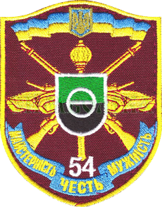 Shoulder sleeve insignia of the Ukrainian Army 54th Mechanized Brigade